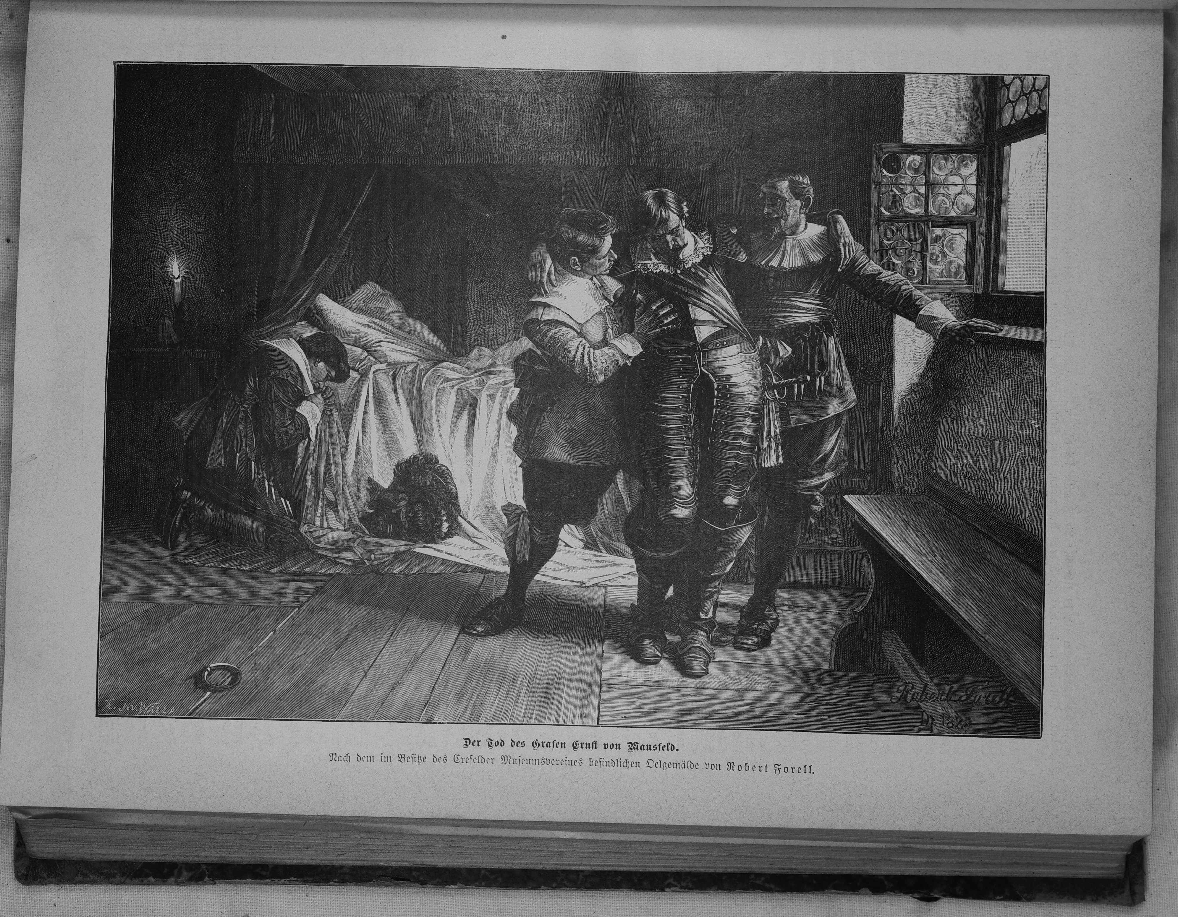 Page 153 from journal Die Gartenlaube for 1891. Extracted image (if any): File:Die Gartenlaube (1891) b 153.jpg - hi res, ~2.5 MB.